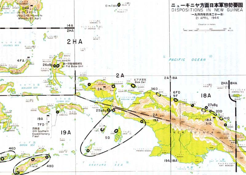 Dispositions of Japanese forces in New Guinea, 21 April 1944